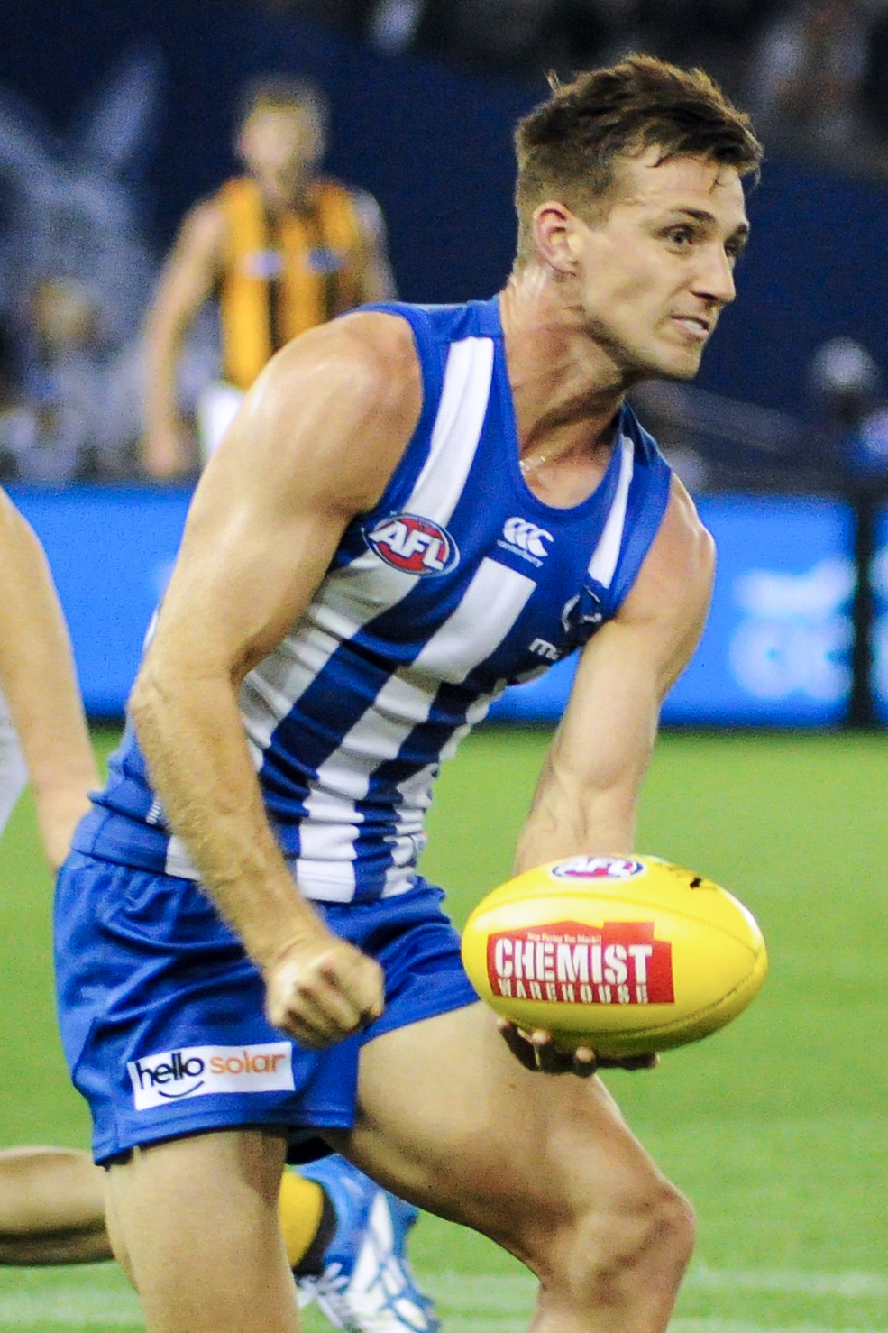 Shaun Atley during the AFL round five match between North Melbourne and Hawthorn on Sunday, 22 April 2018 at Etihad Stadium in Melbourne, Victoria.